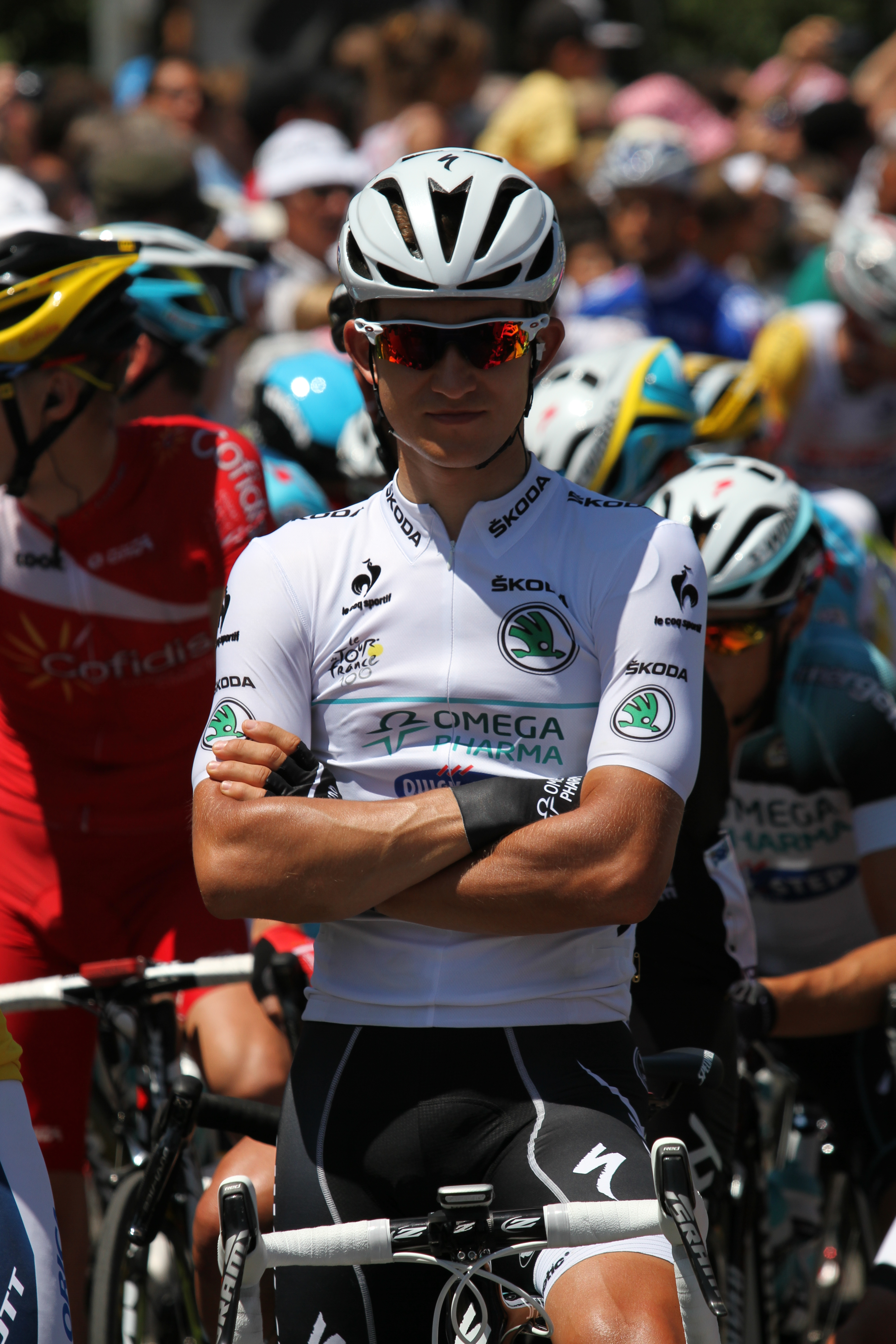 Michał Kwiatkowski during Stage 6 of the Tour de France 2013 in Aix-en-Provence (Bouches-du-Rhône, France)